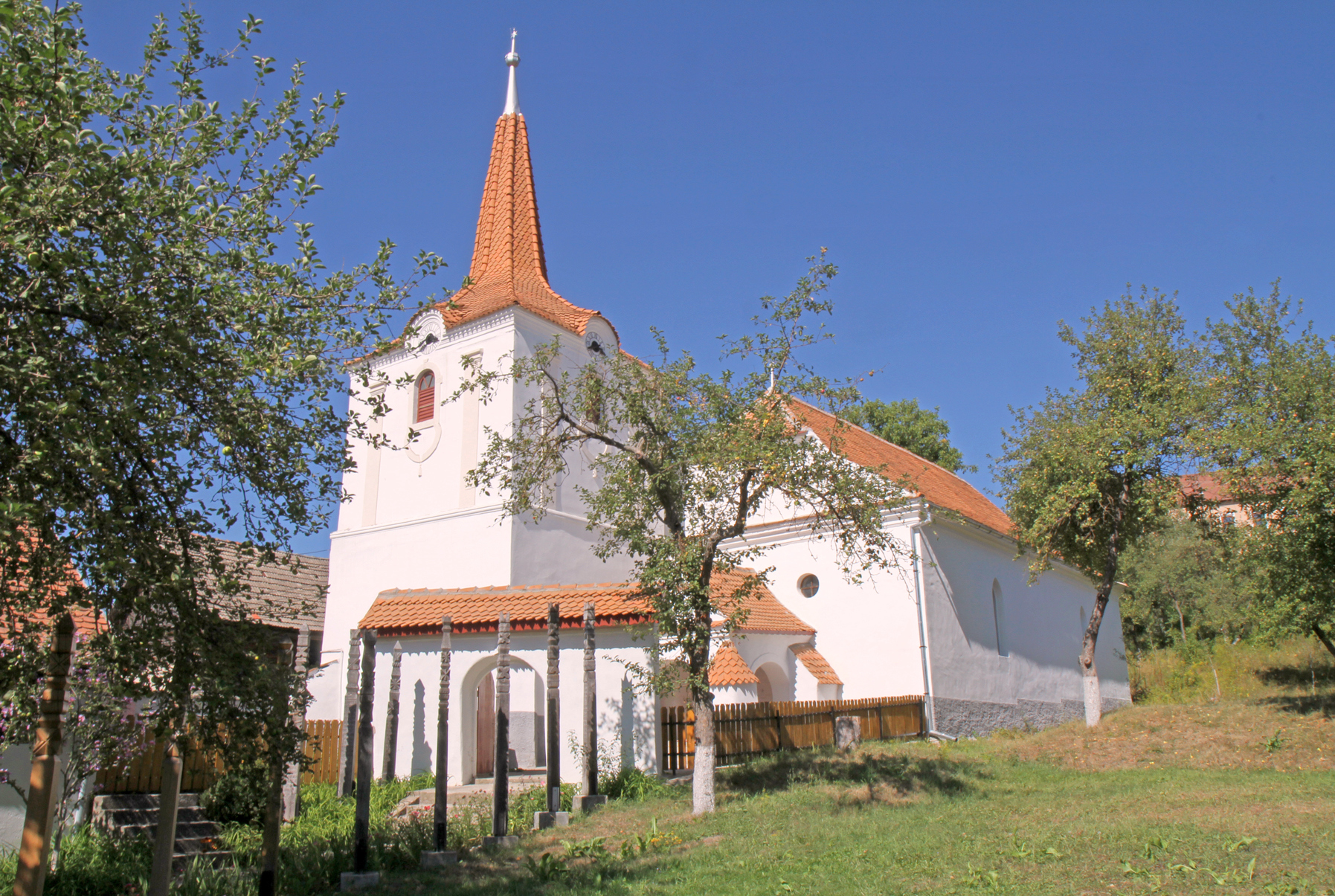 Reformed church in Hoghiz, Brașov county, Romania